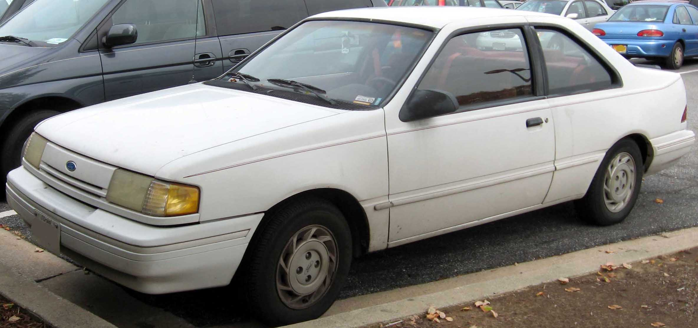 1992-1994 Ford Tempo photographed in College Park, Maryland, USA.